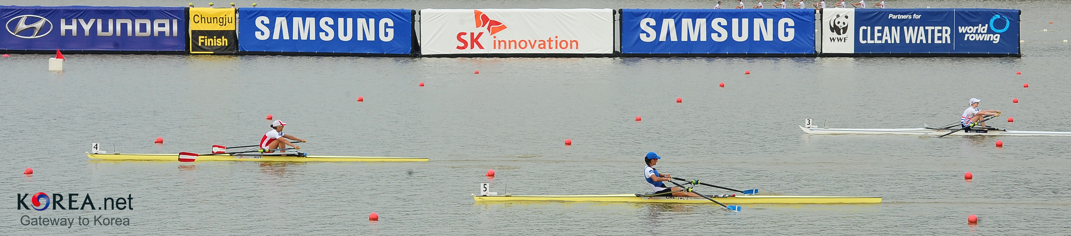 2013 Chungju World Rowing Championships